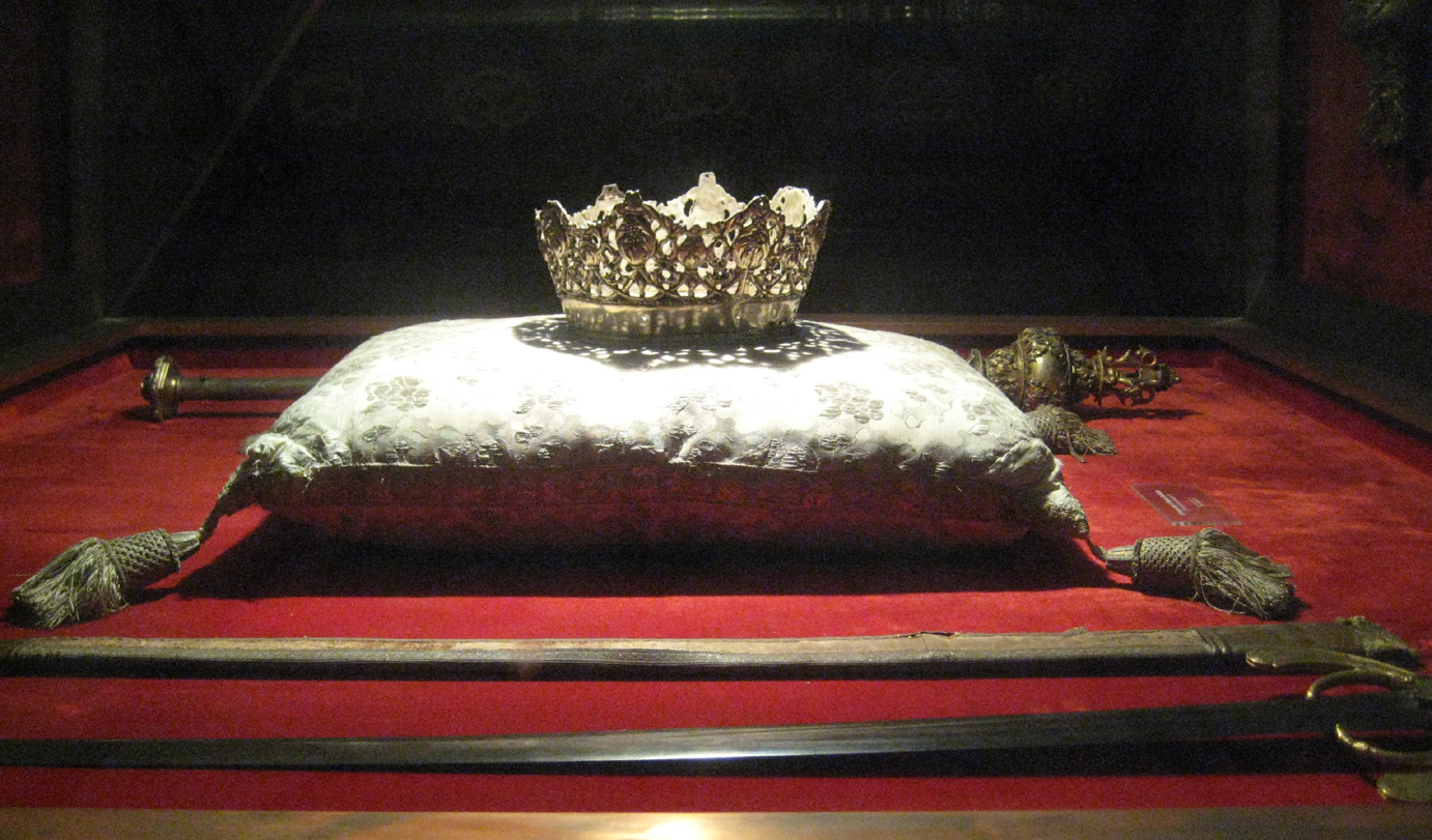 Crown of Isabelle of Catile and Ferdinand of Aragon's sword in Capilla Real, Granada